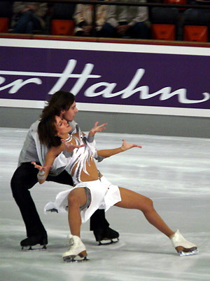 Alla Beknazarova and Vladimir Zuev during their free dance at the 2007 Nebelhorn Trophy.